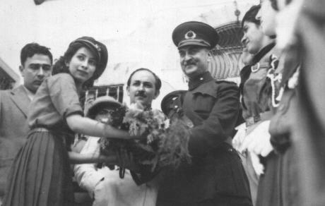 Asım Gündüz in Antakya, July 1938